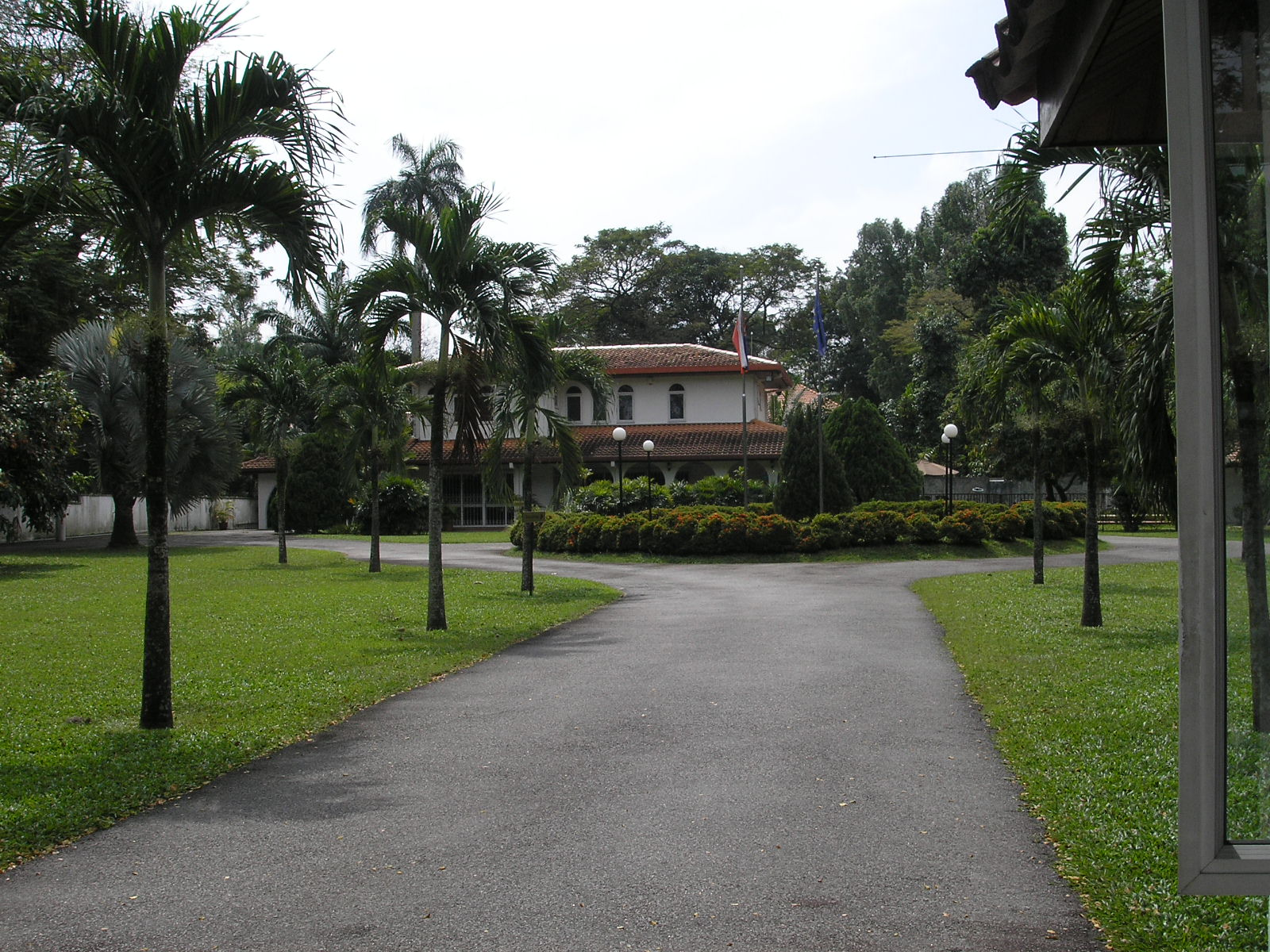 The Slovakian Embassy at Jalan U Thant street in Kuala Lumpur, place of many embassies and residences.